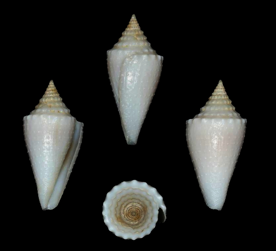 Conus granarius Kiener, 1847; family Conidae; holotype of the synonym Conus granarius panamicus Petuch, 1990 in the Smithsonian INstitution